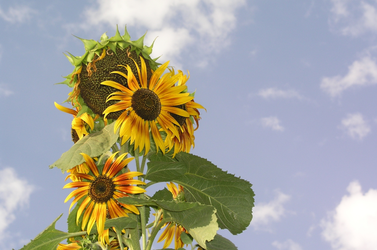 Sunflower, (Suncokret), Croatia